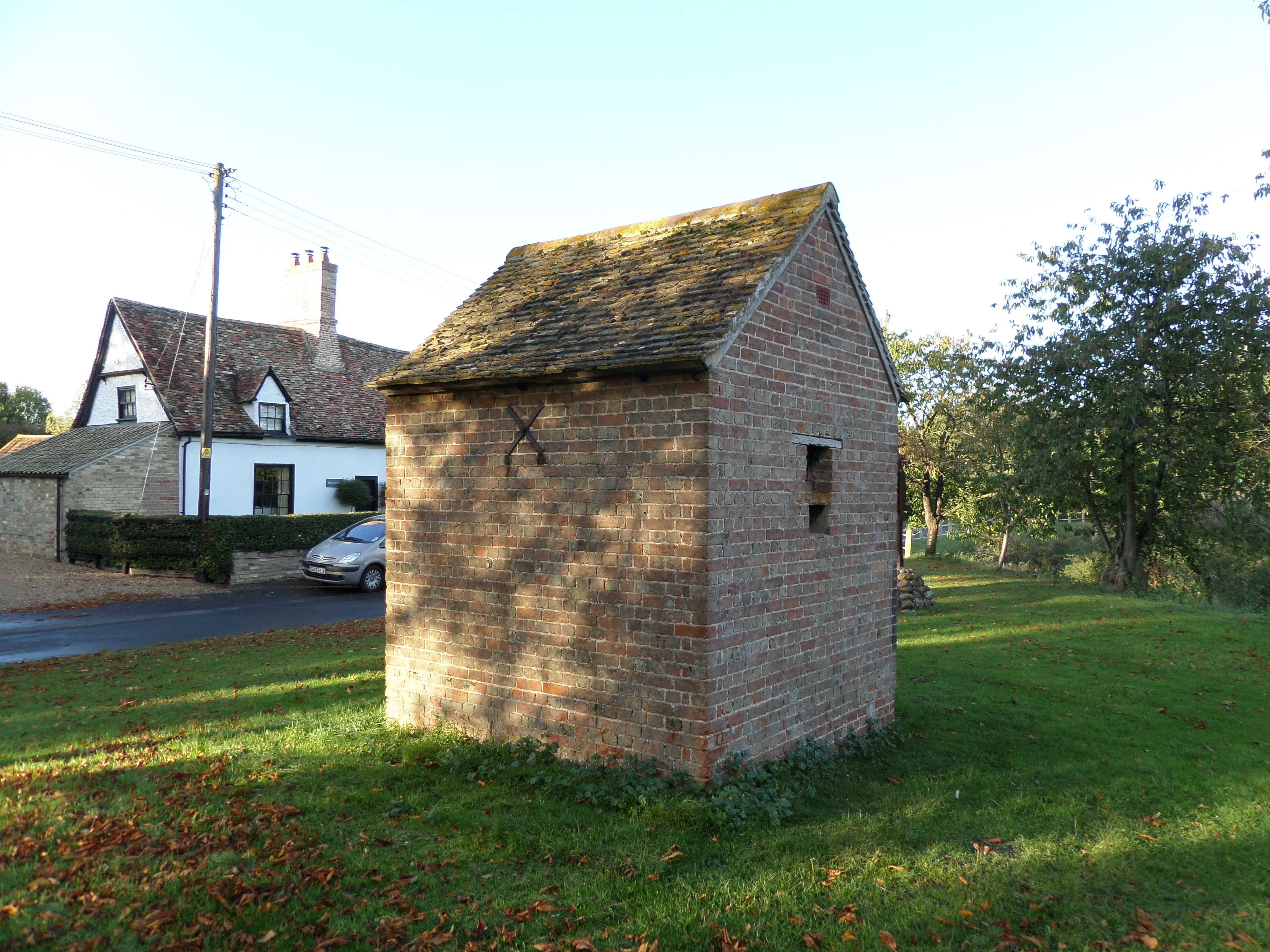 The old jail on Broughton village green, Cambridgeshire, England. One of only four or so that survive in the county.